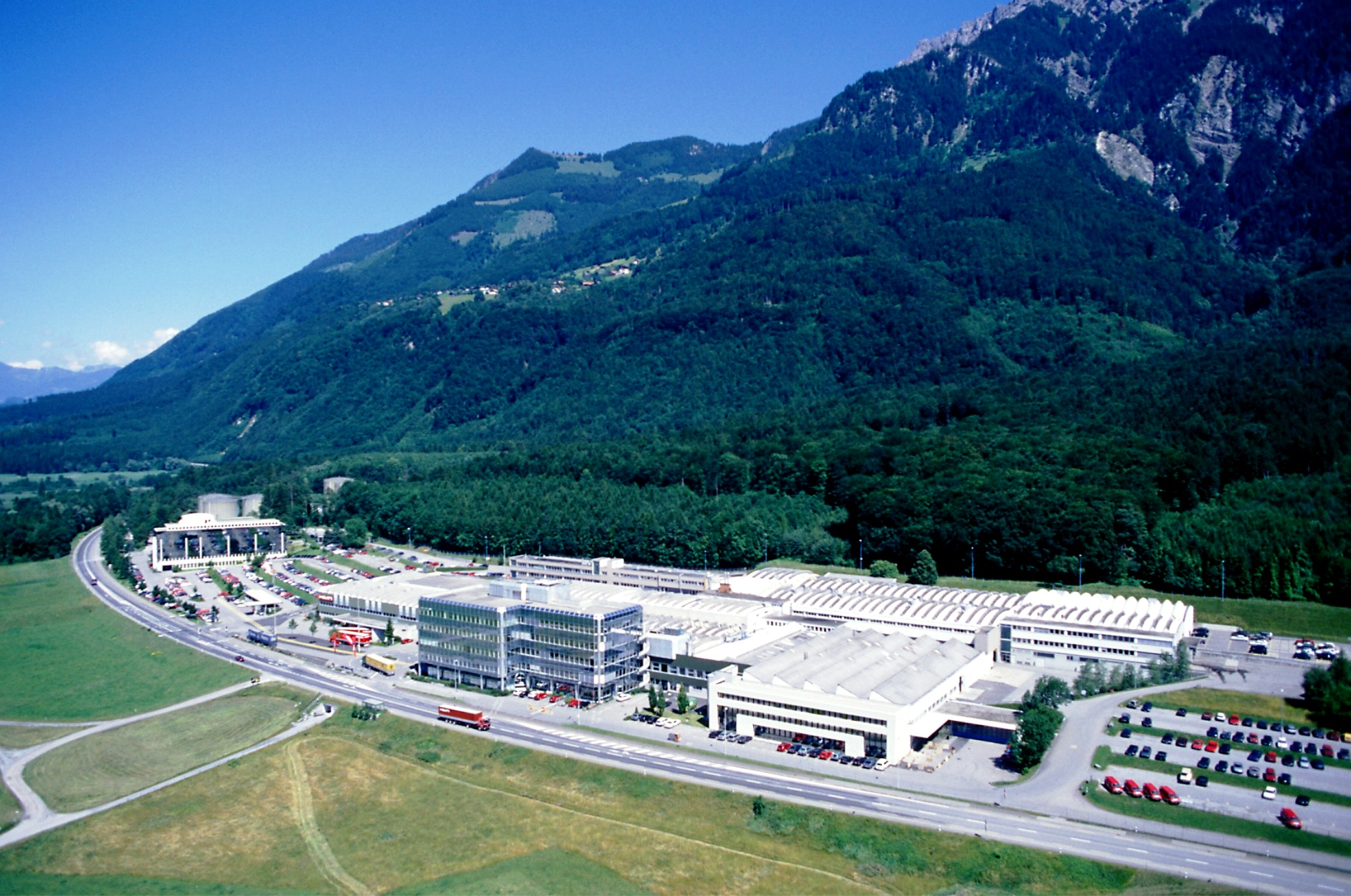 Headquater of Hilti AG in Schaan, principality of Liechtenstein